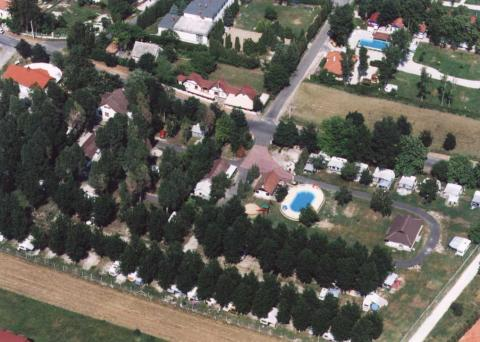 Gyenesdiás, Hungary, aerialphotography